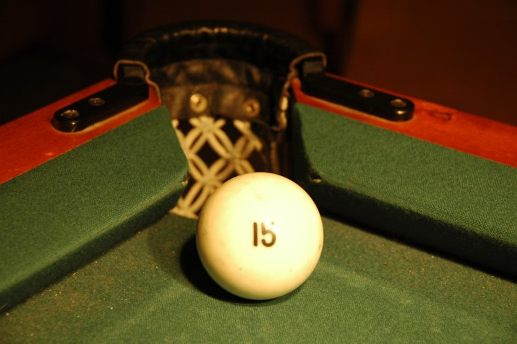 Russian billiard ball, demonstrating the tightness of the pockets in the game of Russian pyramid.